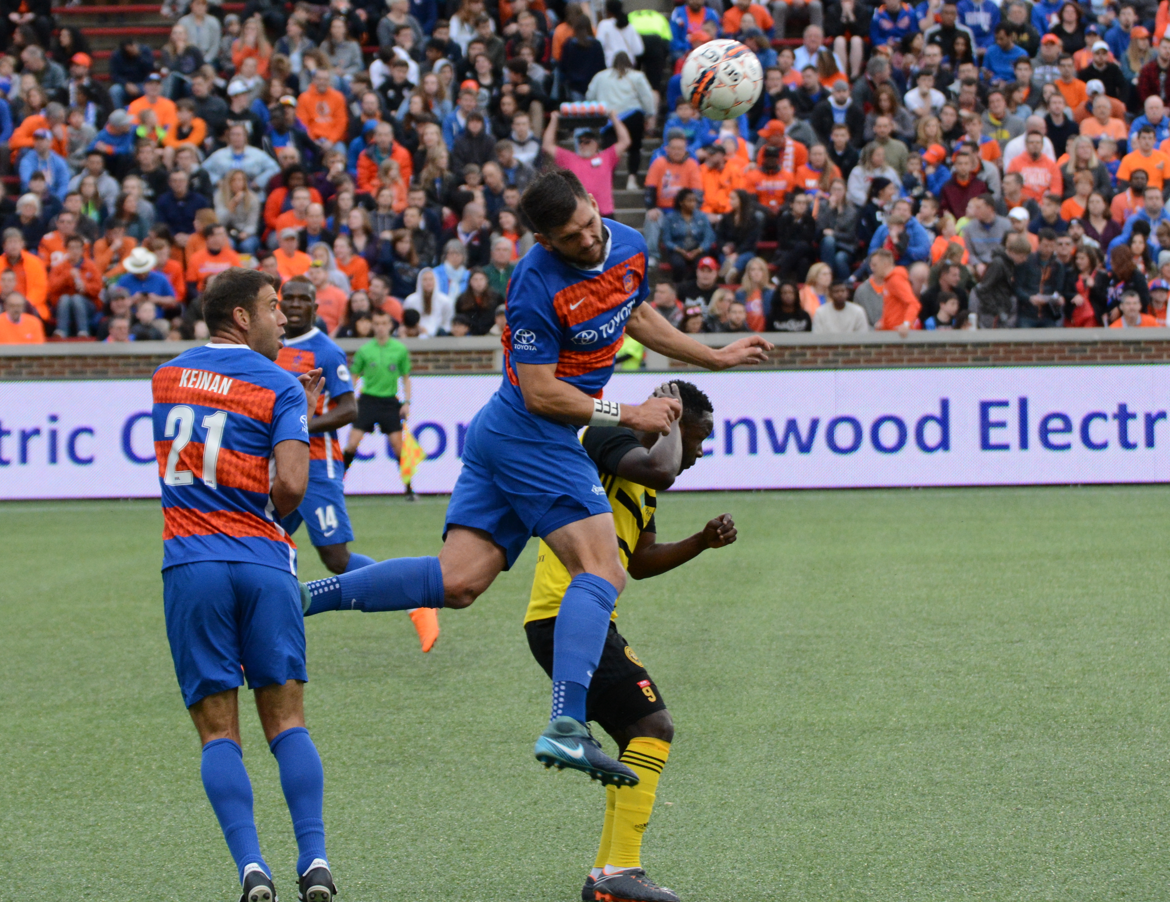 Taken during a USL regular season match between FC Cincinnati and Pittsburgh Riverhounds at Nippert Stadium in Cincinnati, USA on April 21, 2018.